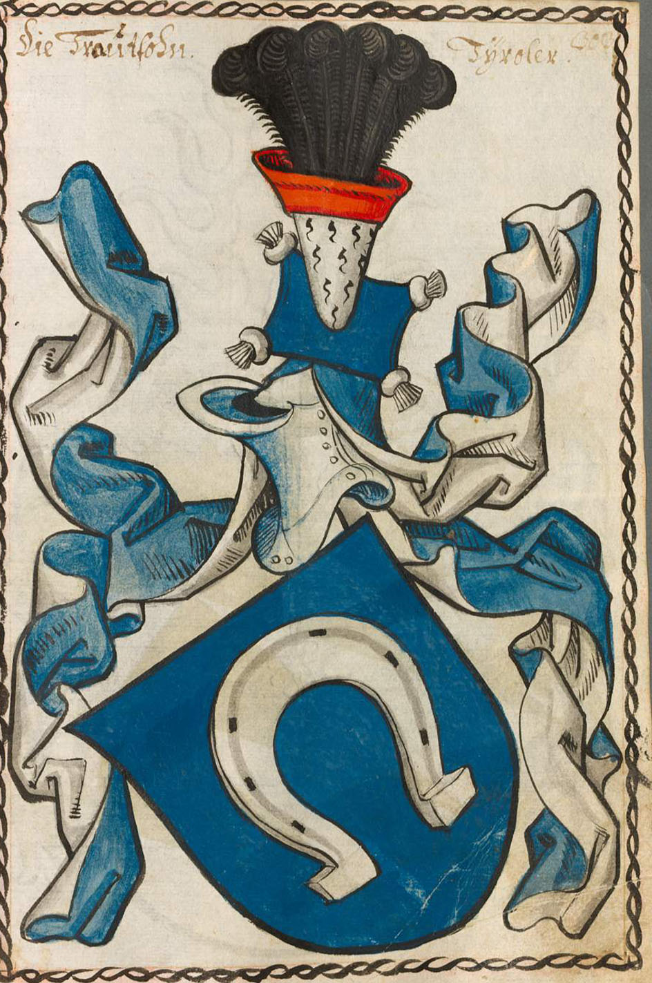 Coat of arms of Trautson